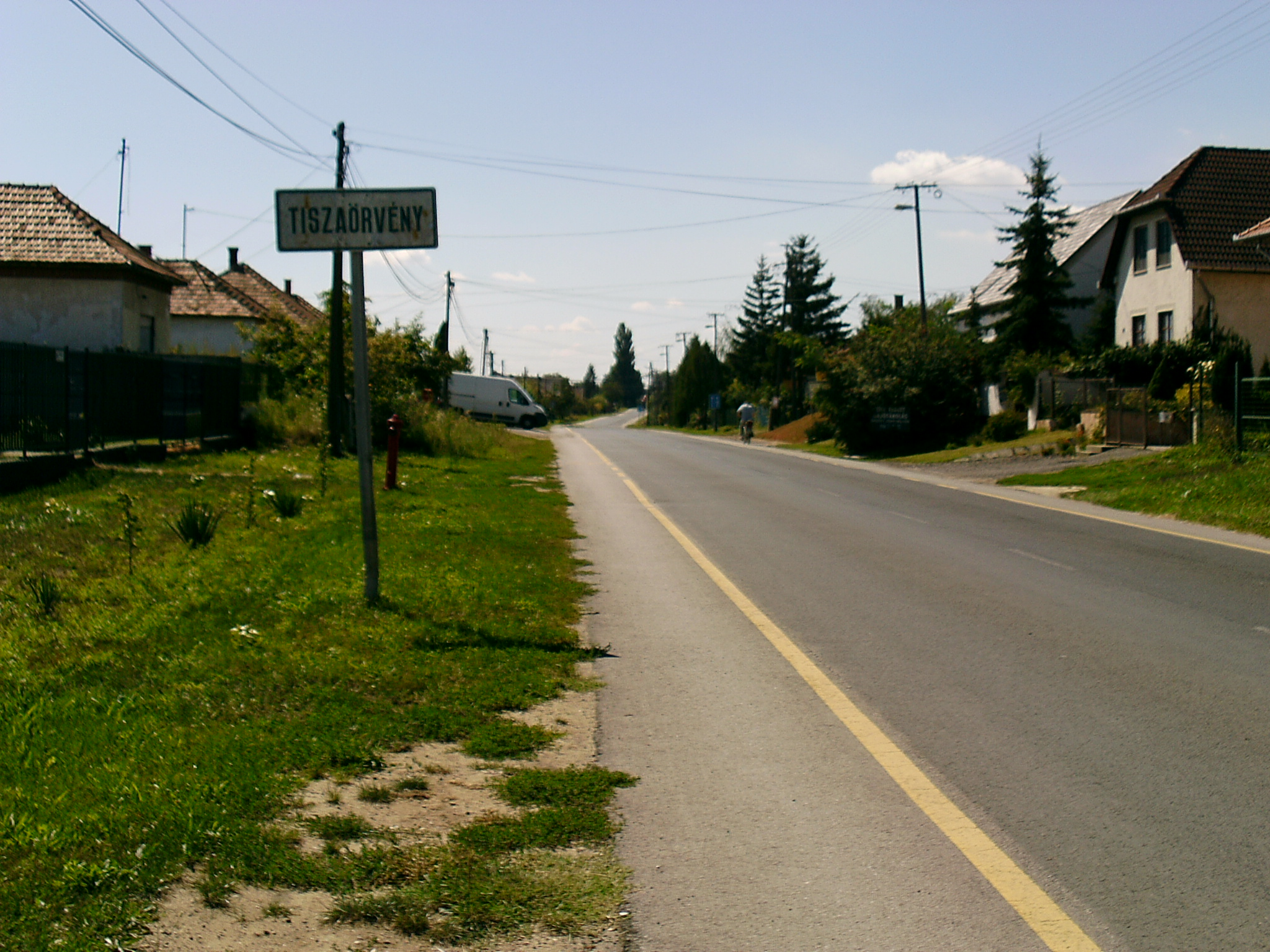 EuroVelo 11, Tiszaörvény